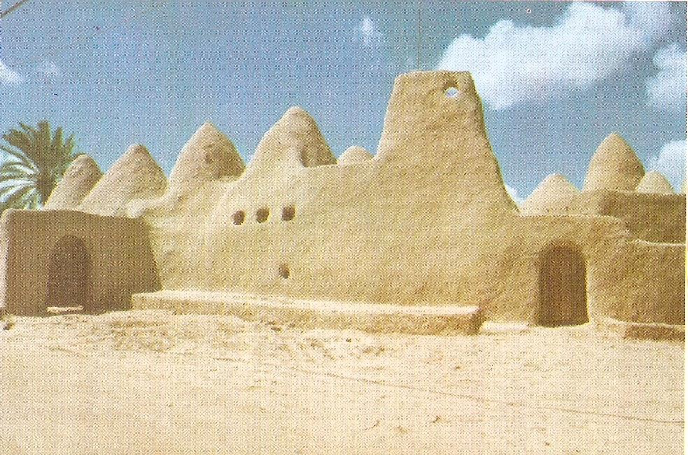 The Old mosque — in Awjilah, Libya.